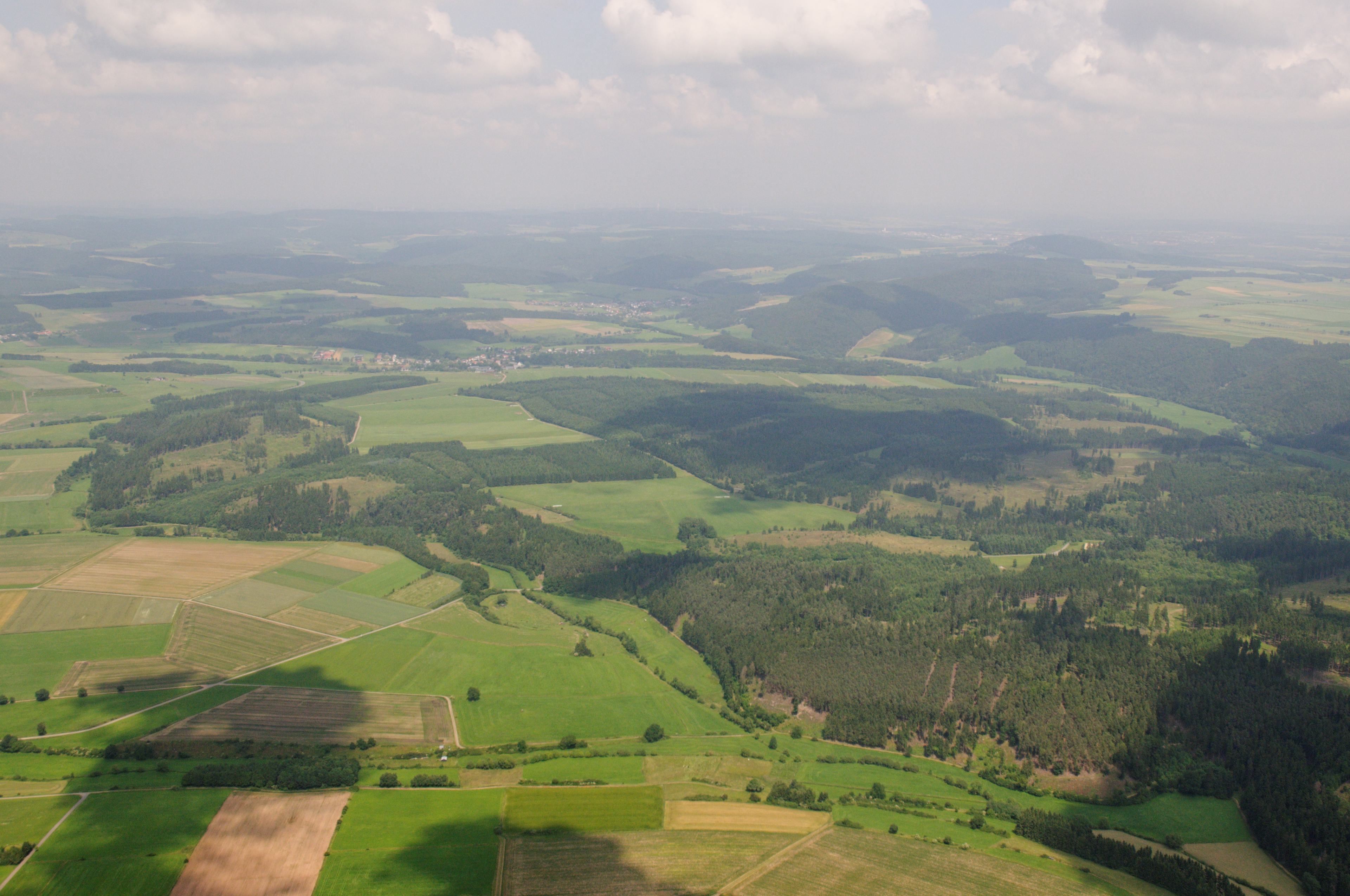 Fotoflug Sauerland-Ost, Bach Brühne östlich von Medebach, NSG Brühnetal, Forsthaus Faust The making of this document was supported by the Community-Budget of Wikimedia Germany.